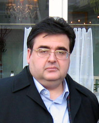 Alexey Mitrofanov, Russian politician